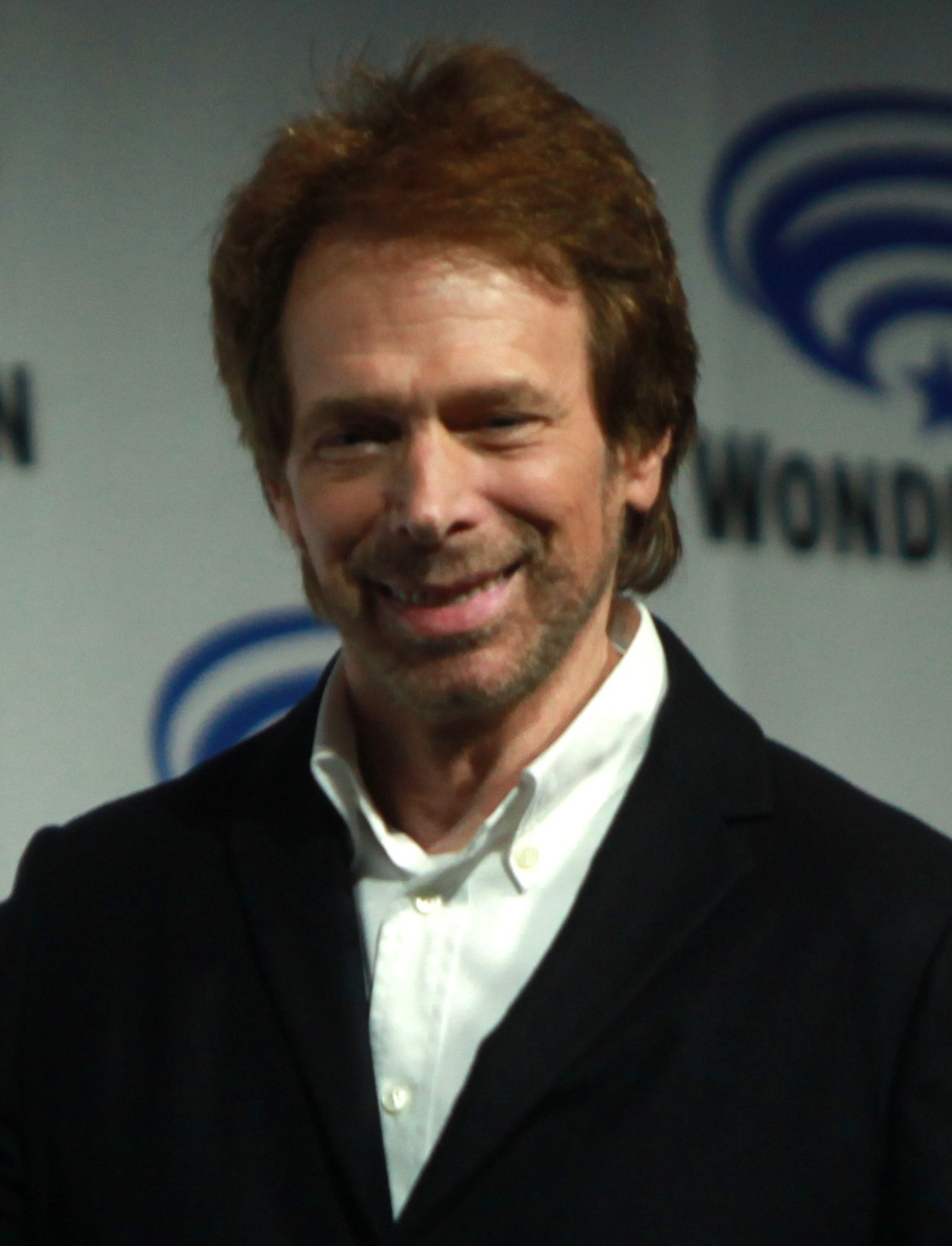 Jerry Bruckheimer speaking at the 2014 WonderCon, for "Deliver Us from Evil", at the Anaheim Convention Center in Anaheim, California. Photo by Gage Skidmore, taken on April 19, 2014